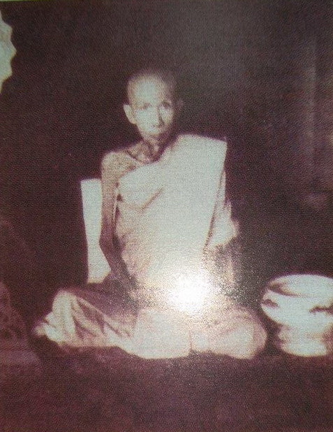 พระครูนิวุตถ์พรหมจรรย์ (บิดาบุญธรรมหลวงปู่) วัดบ้านแก่ง